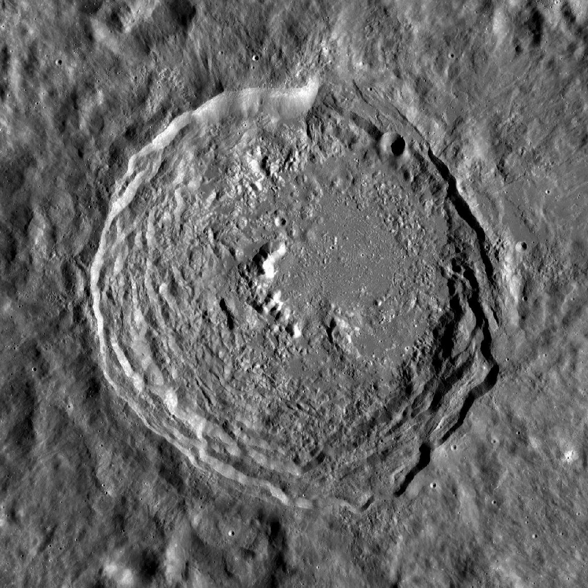 LRO image of Vavilov crater, on the far side of the moon, from the Wide Angle Camera (WAC).